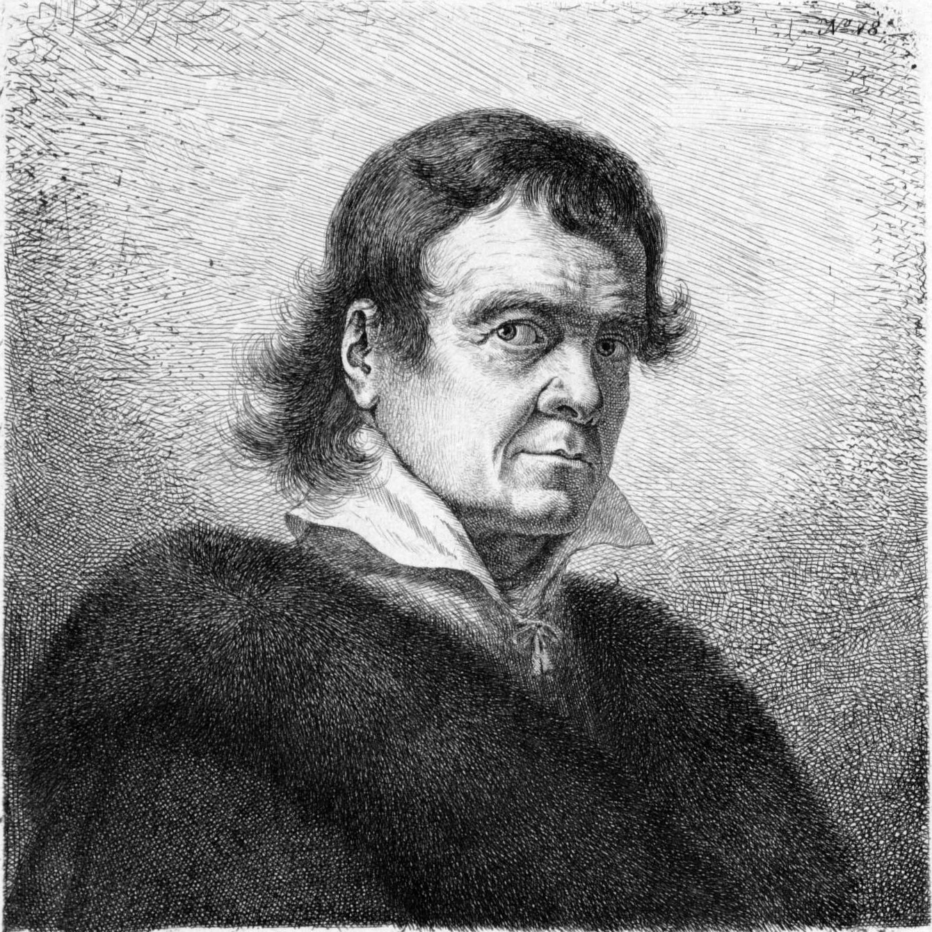 Depicted person: Maler Müller